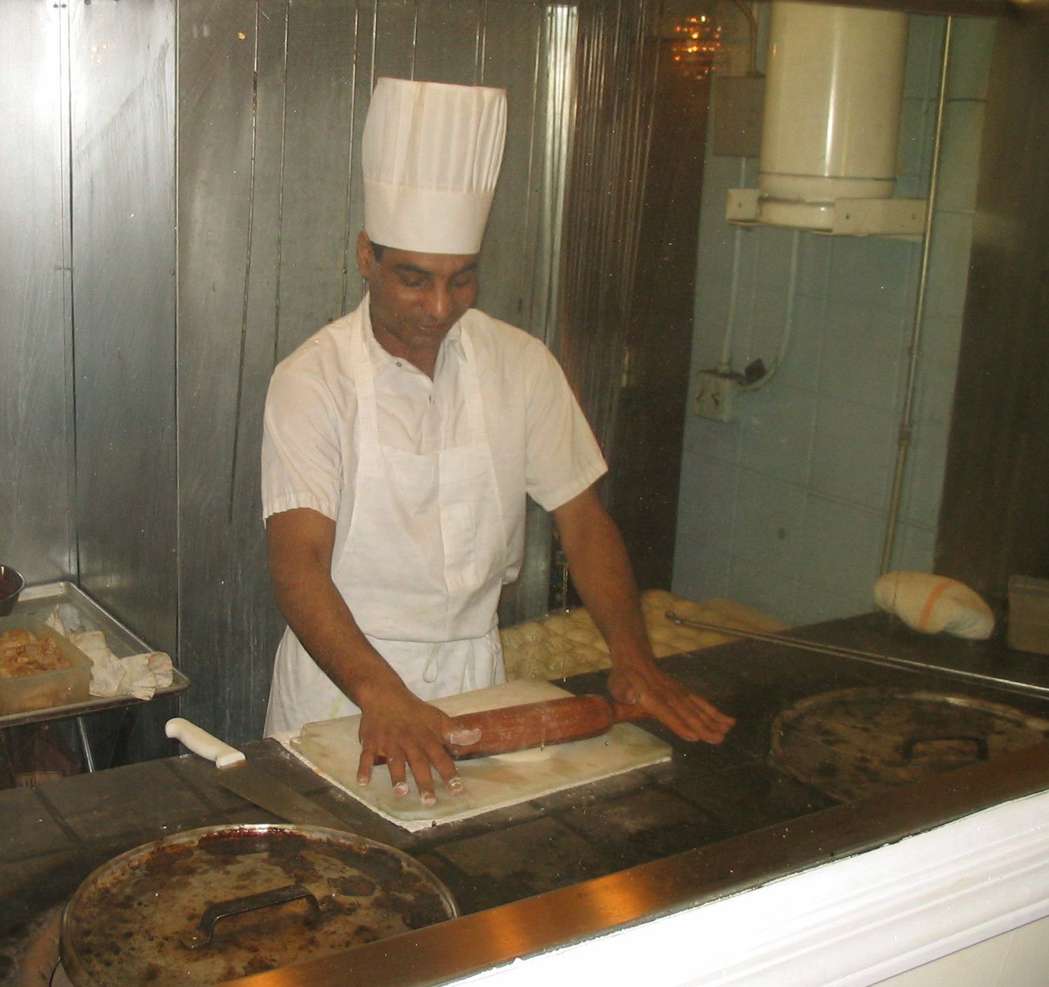 A chef working at a tandoor.